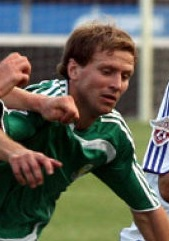 Vital Bulyga in action for FC Tom